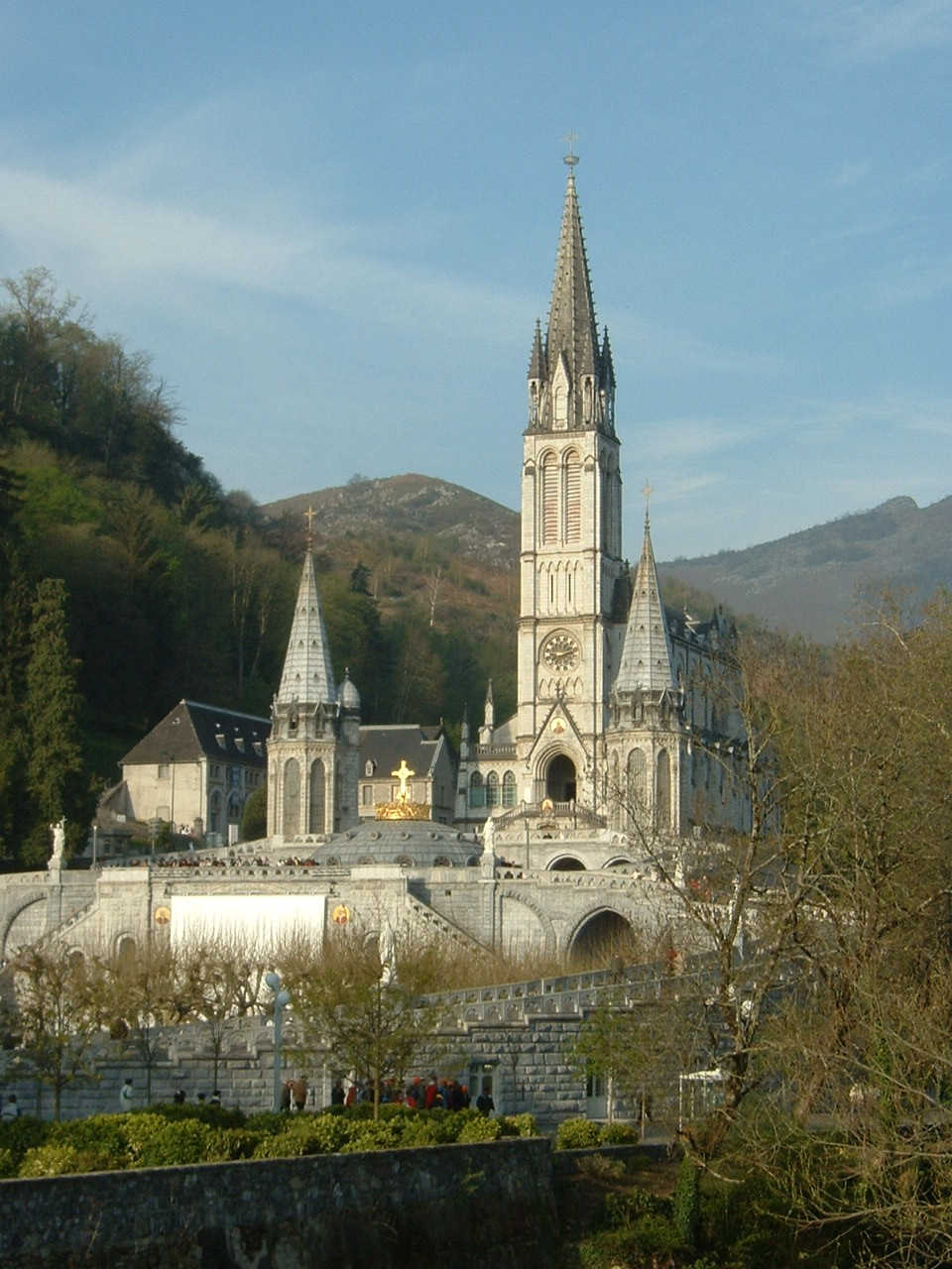 Sanctuaries of Lourdes